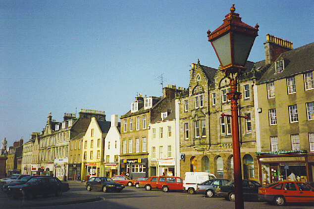 High Street - Montrose, Angus, Great Britain. Montrose folk are called "Gable Endies" - taken from these gables which reflect Dutch influence on the local architecture.